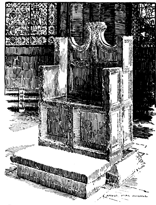 Katharine Lee Bates, Chaucer's Canterbury Pilgrims (Chicago: Rand McNally & Company, 1914)